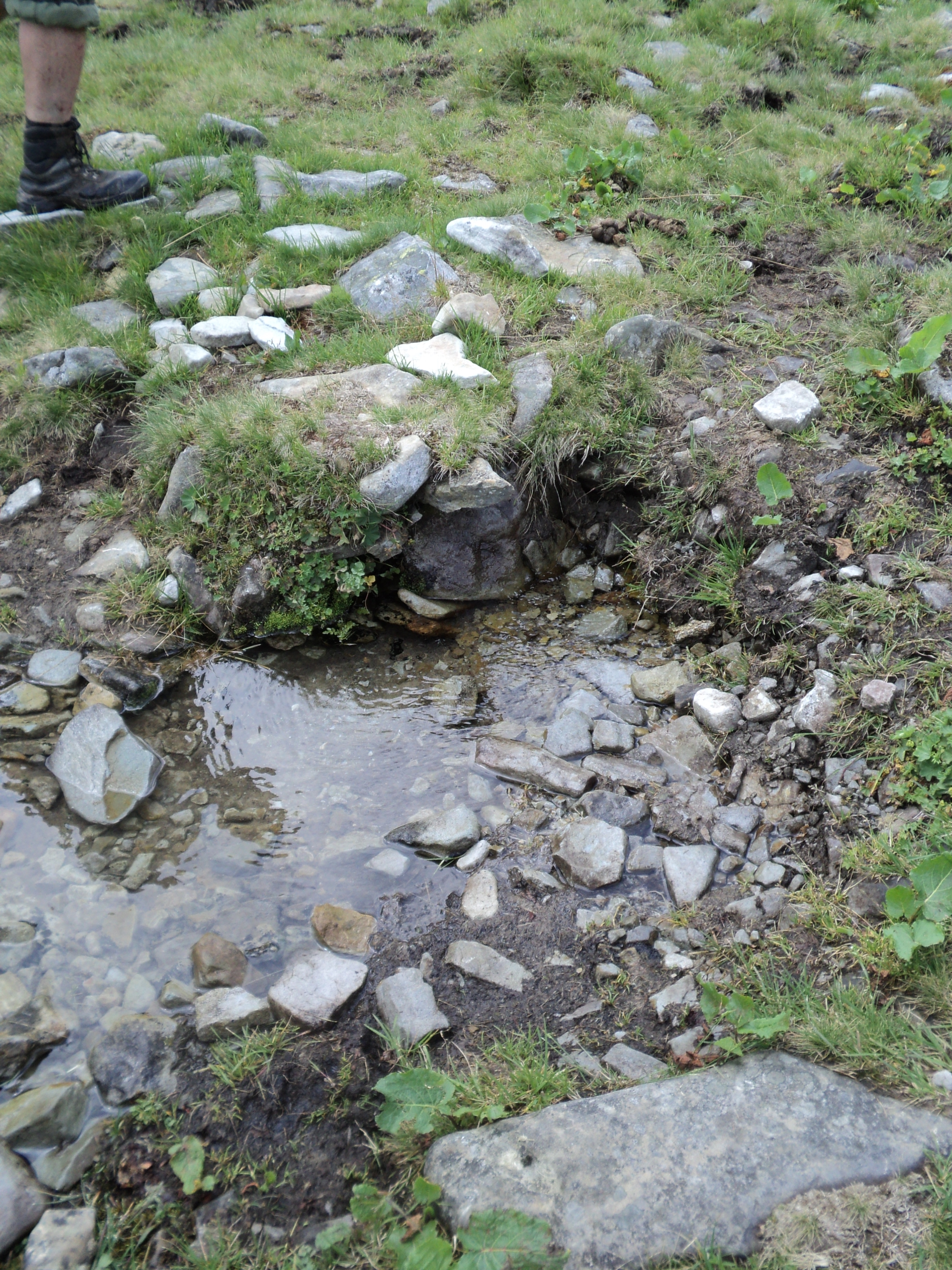 Dzherelo of Bystrica-Solotvynska